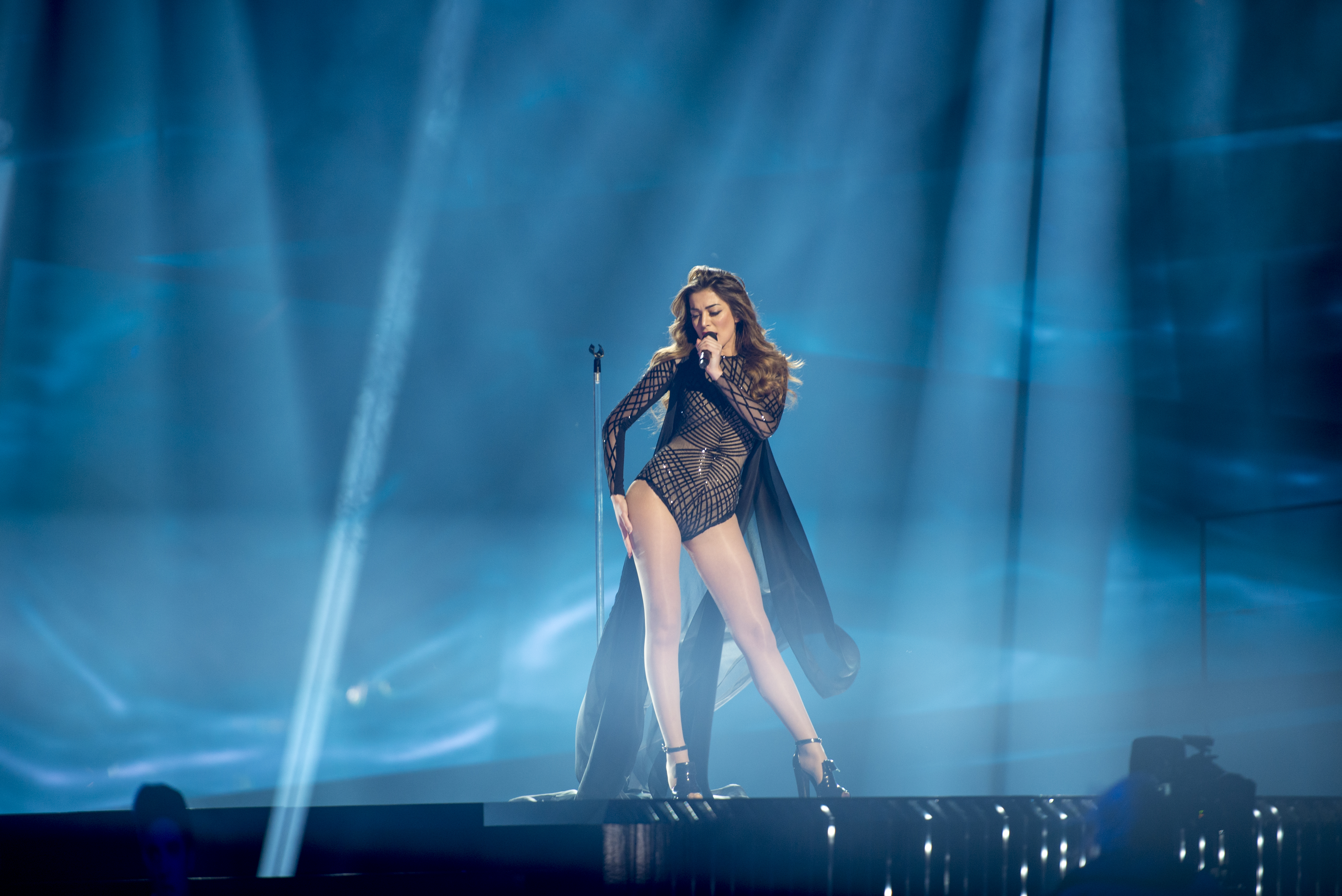 Iveta Mukuchyan representing Armenia with the song "LoveWave" during a rehearsal before the first semi final of the Eurovision Song Contest 2016 in Stockholm. (Help translate this text)